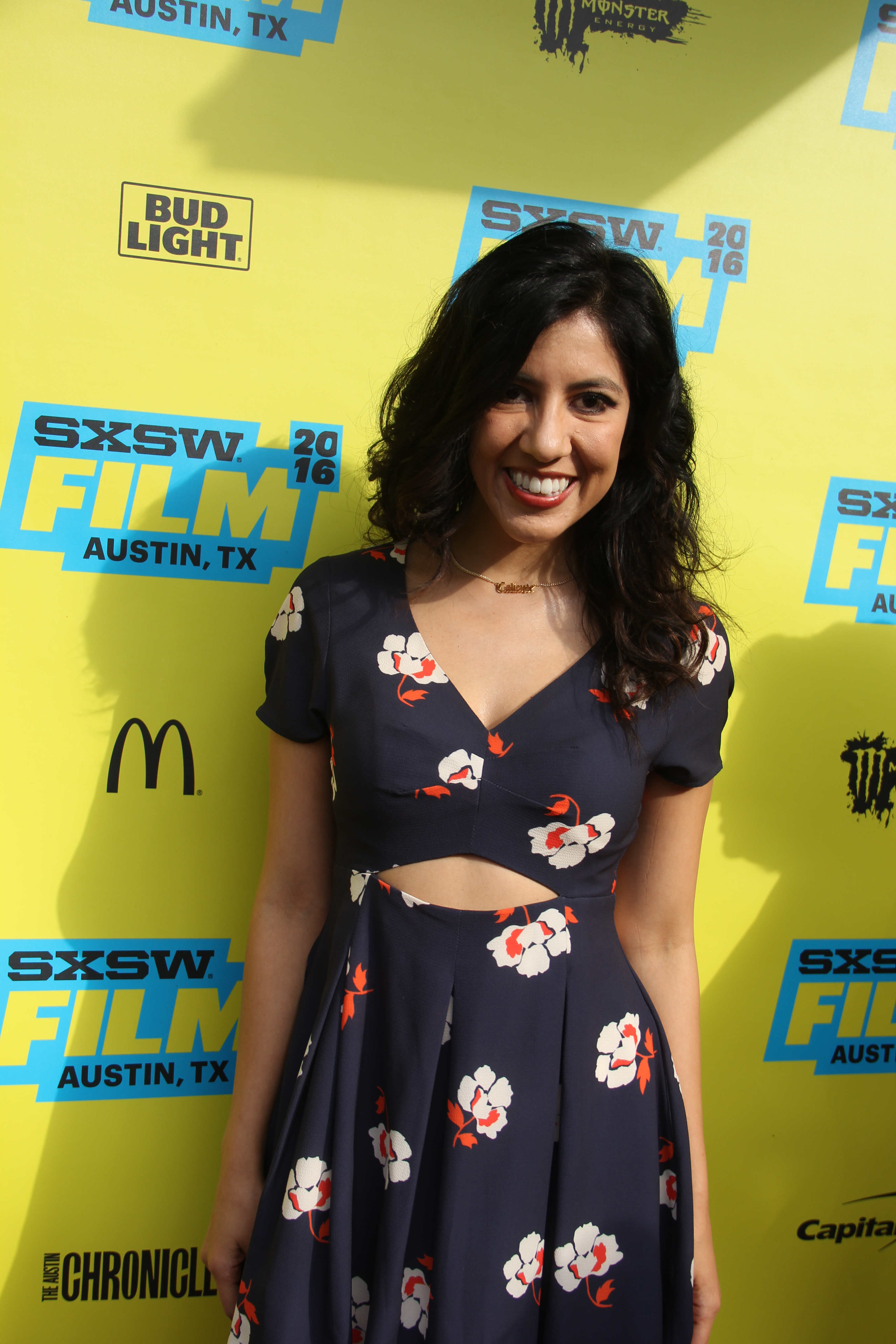 Stephanie Beatriz at the premiere of Pee-Wee's Big Holiday. Taken at SXSW 2016.